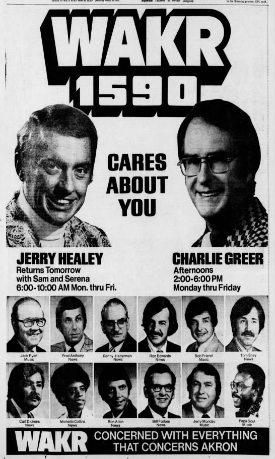 The ad appeared in the March 28, 1976 issue of the Akron Beacon Journal and can be dated from that publication; it is pre-1978. There are no copyright markings as can be seen at the full view link. The ad is not covered by any copyrights for the Akron Beacon Journal. US Copyright Office page 3-periodicals are collective works (PDF) "A notice for the collective work will not serve as the notice for advertisements inserted on behalf of persons other than the copyright owner of the collective work. These advertisements should each bear a separate notice in the name of the copyright owner of the advertisement." The WAKR call letters have been previously trademarked, but the filing occurred after the ad was printed (1985) and has since been cancelled (1992).